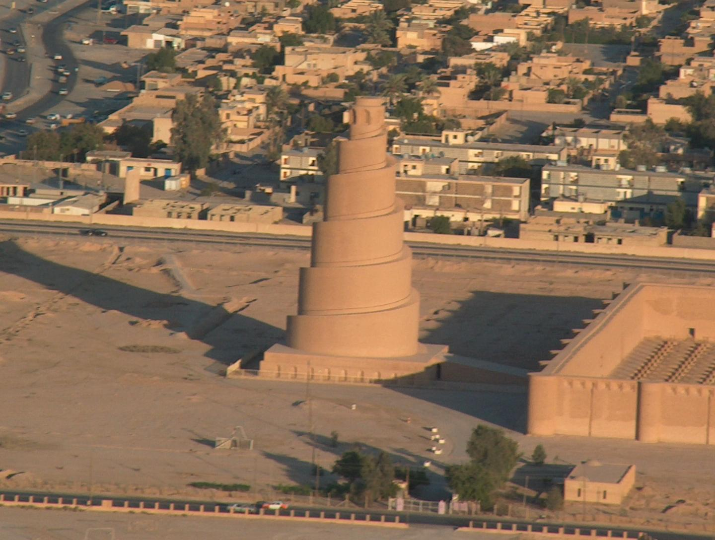 The spiral minaret in Samarra, Iraq. Samarra stands on the east bank of the Tigris in the Salah-ad-Din Governorate, 125 kilometers (78 mi) north of Baghdad and, in 2002, had an estimated population of 201,700. UNESCO named Samarra one of its World Heritage Sites.